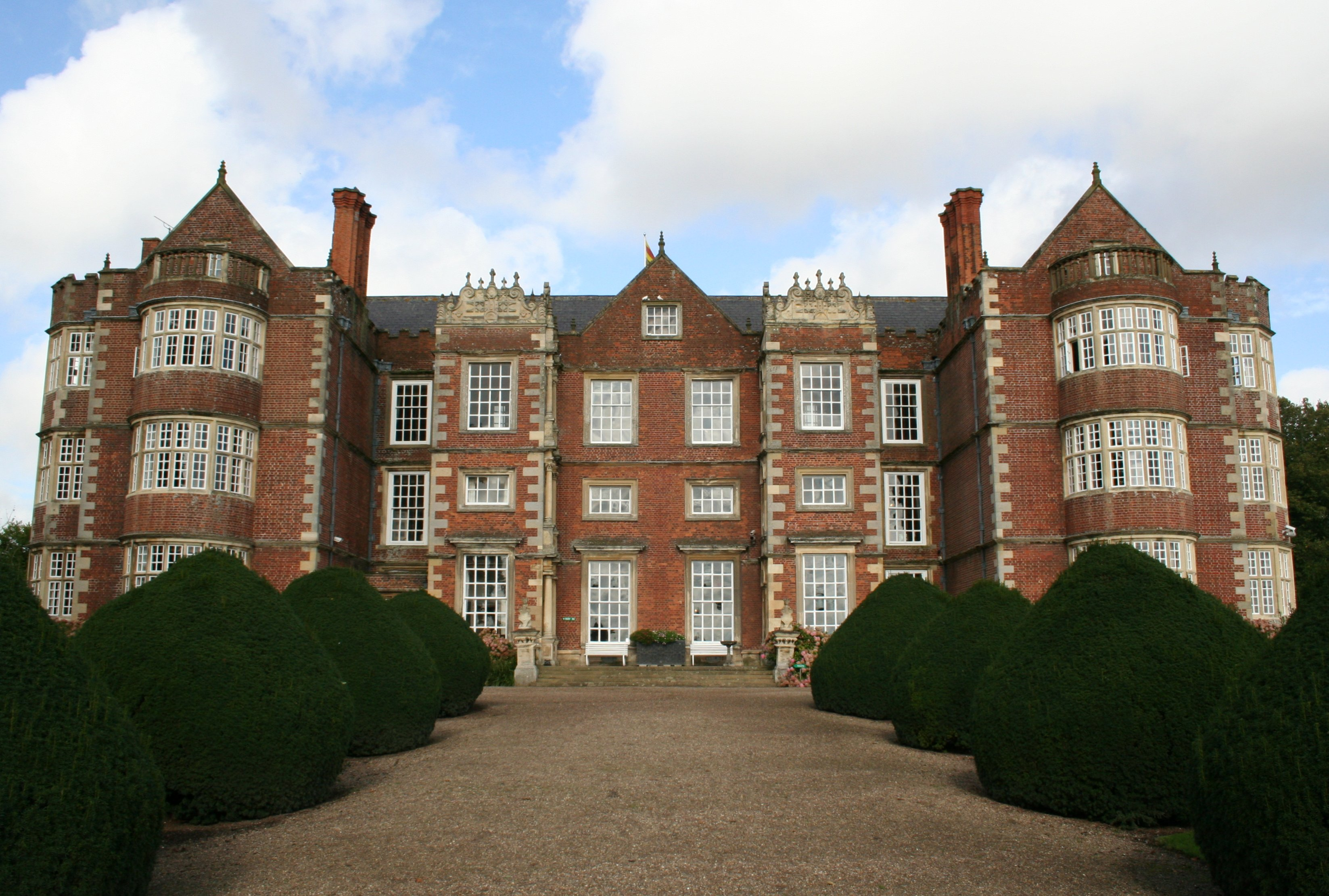 The front of Burton Agnes Hall, a Jacobean manor house in Burton Agnes, East Riding of Yorkshire, England.